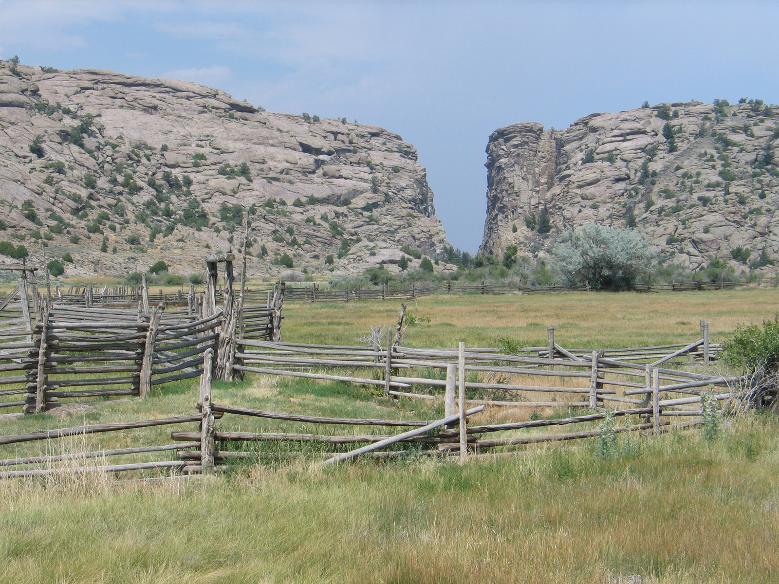 Devil's Gate, Wyoming